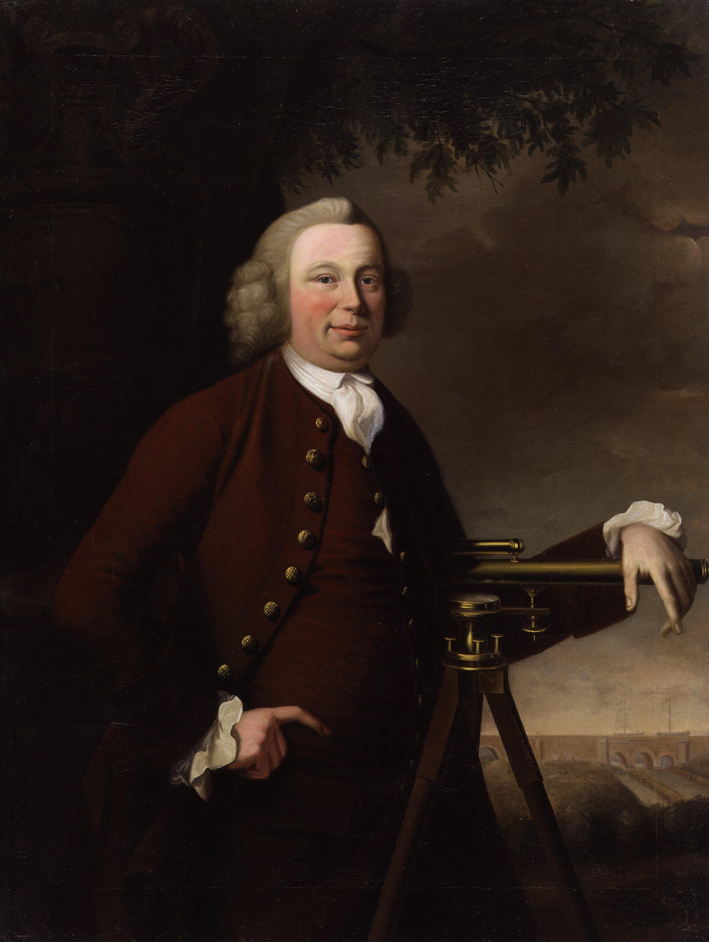 Portrait of James Brindley (1716-1772), British engineer